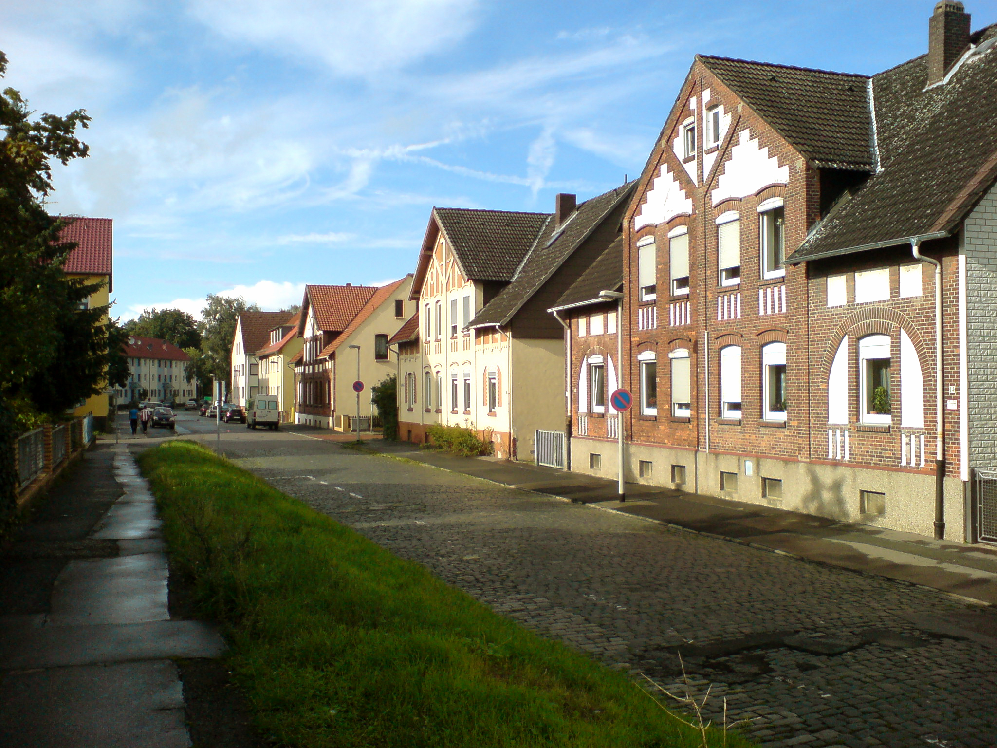 Freudenthalstraße in Hanover's quarter Stöcken